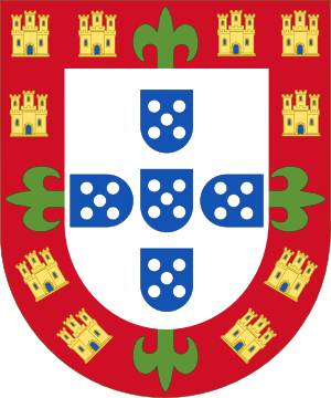 Shield of the Kingdom of Portugal after D. John I, 10th King of Portugal, 1st of the House of Aviz